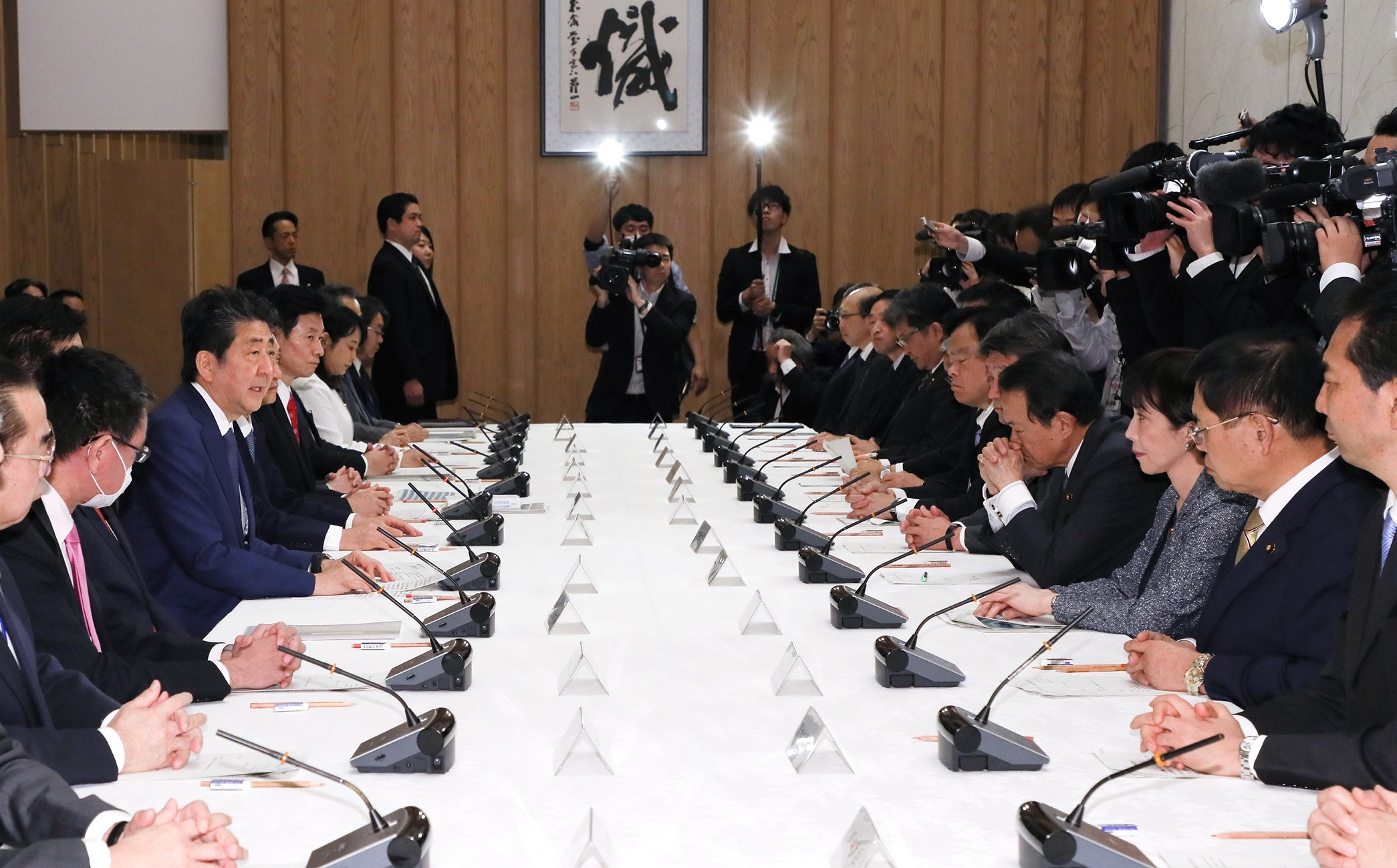 Shinzō Abe, Prime Minister, and the Ministers attended a meeting of the Novel Coronavirus Response Headquarters at the Prime Minister's Official Residence in Chiyoda Ward, Tōkyō Metropolis on March 26, 2020.